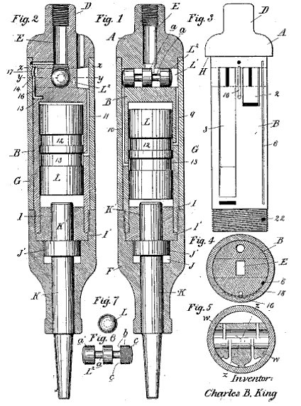 United States Patent 513,941 of Pneumatic Tool by inventor Charles Brady King